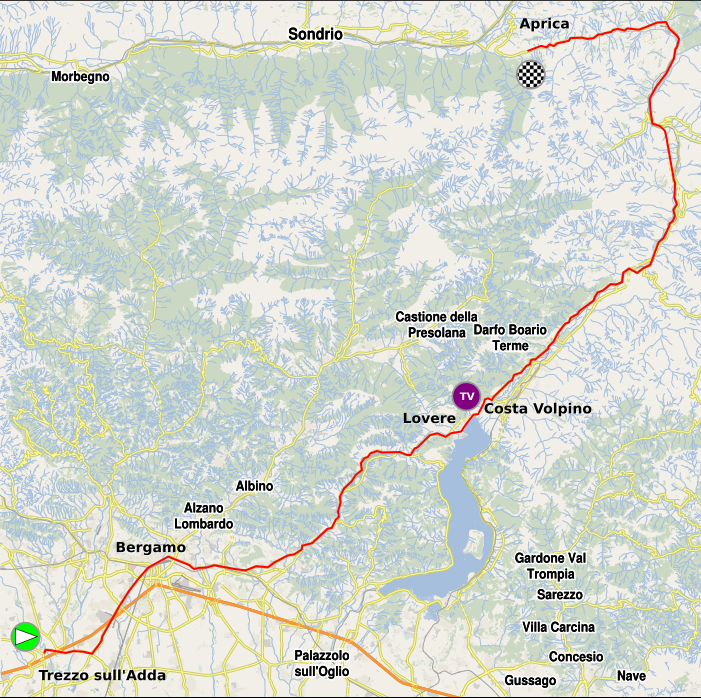 Map of the stage 5 of Giro Donne 2015. Background from OpenStreetMap.